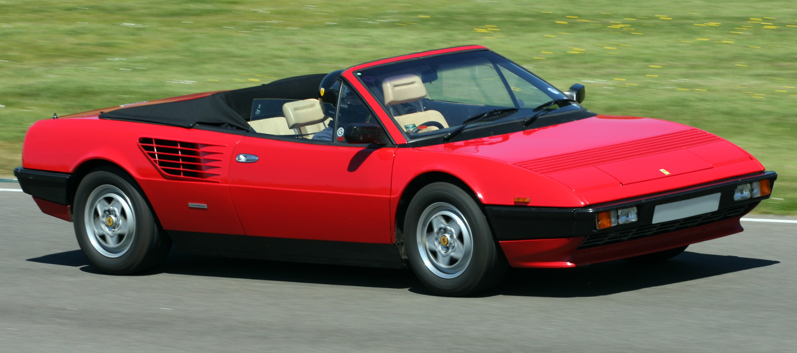 Lancia Motor Club Goodwood Track Day 2010